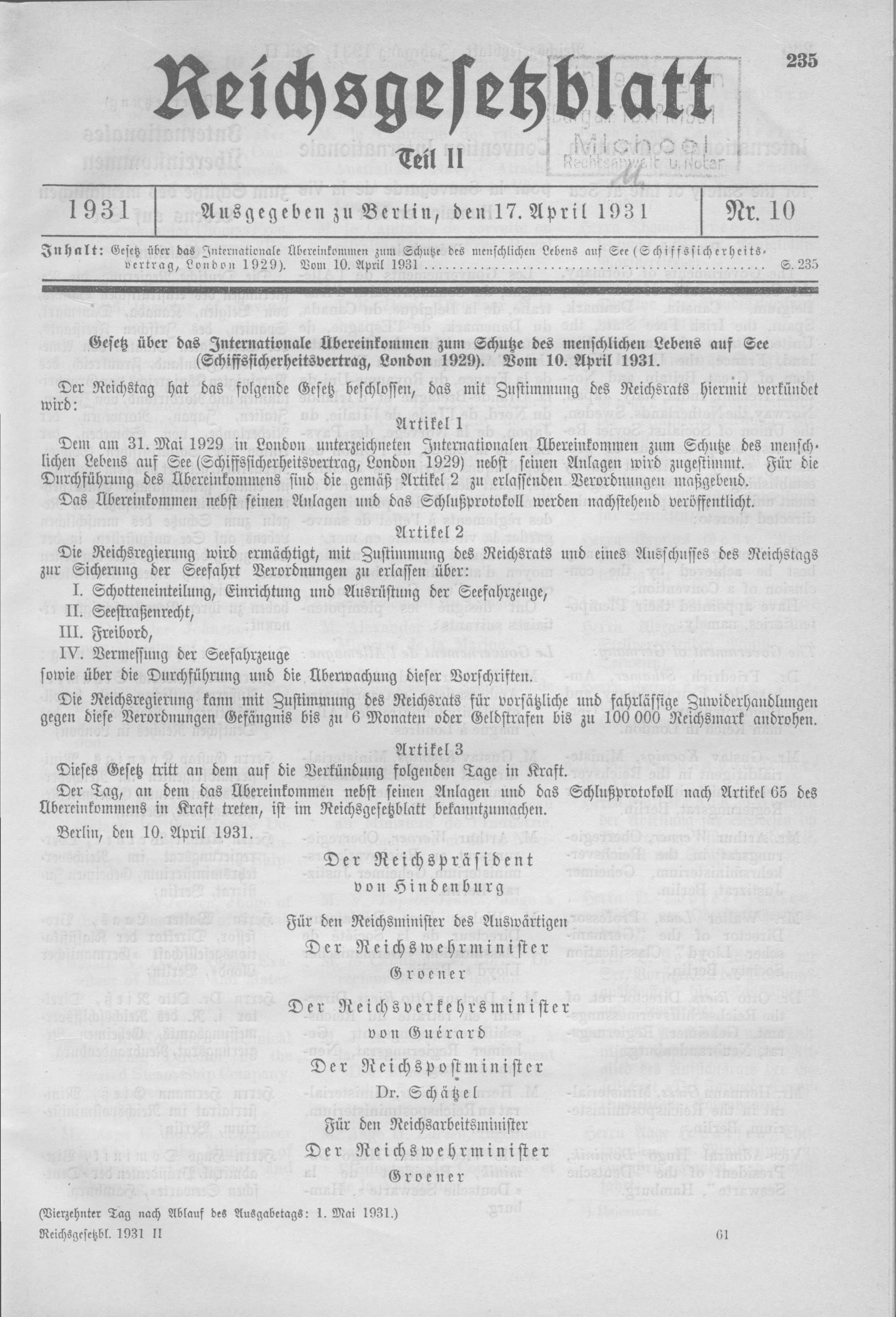 Scan from the Imperial Law Gazette of Germany, 1931, part 2